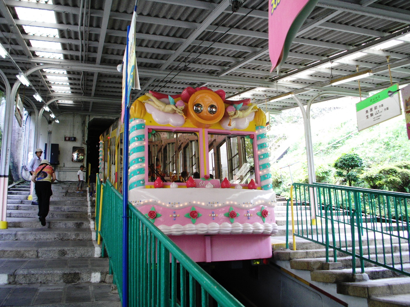 Hozanji Station platform